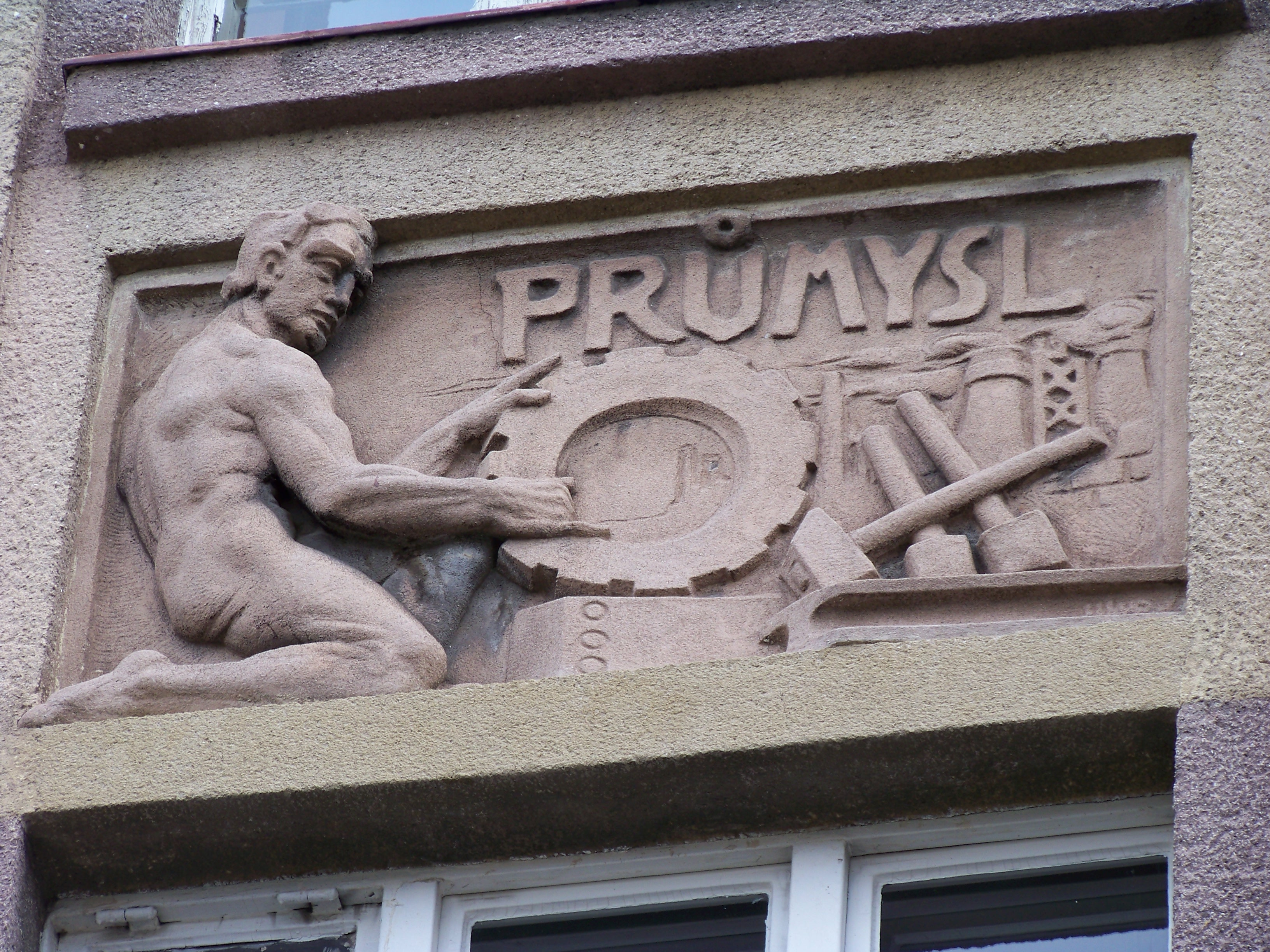 Beroun, Beroun District, Central Bohemian Region, the Czech Republic. A relief on the Commercial Academy. "Industry".